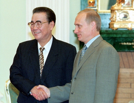 THE KREMLIN, MOSCOW. Vladimir Putin and Chairman of the Standing Committee of China's National People's Congress Li Peng.